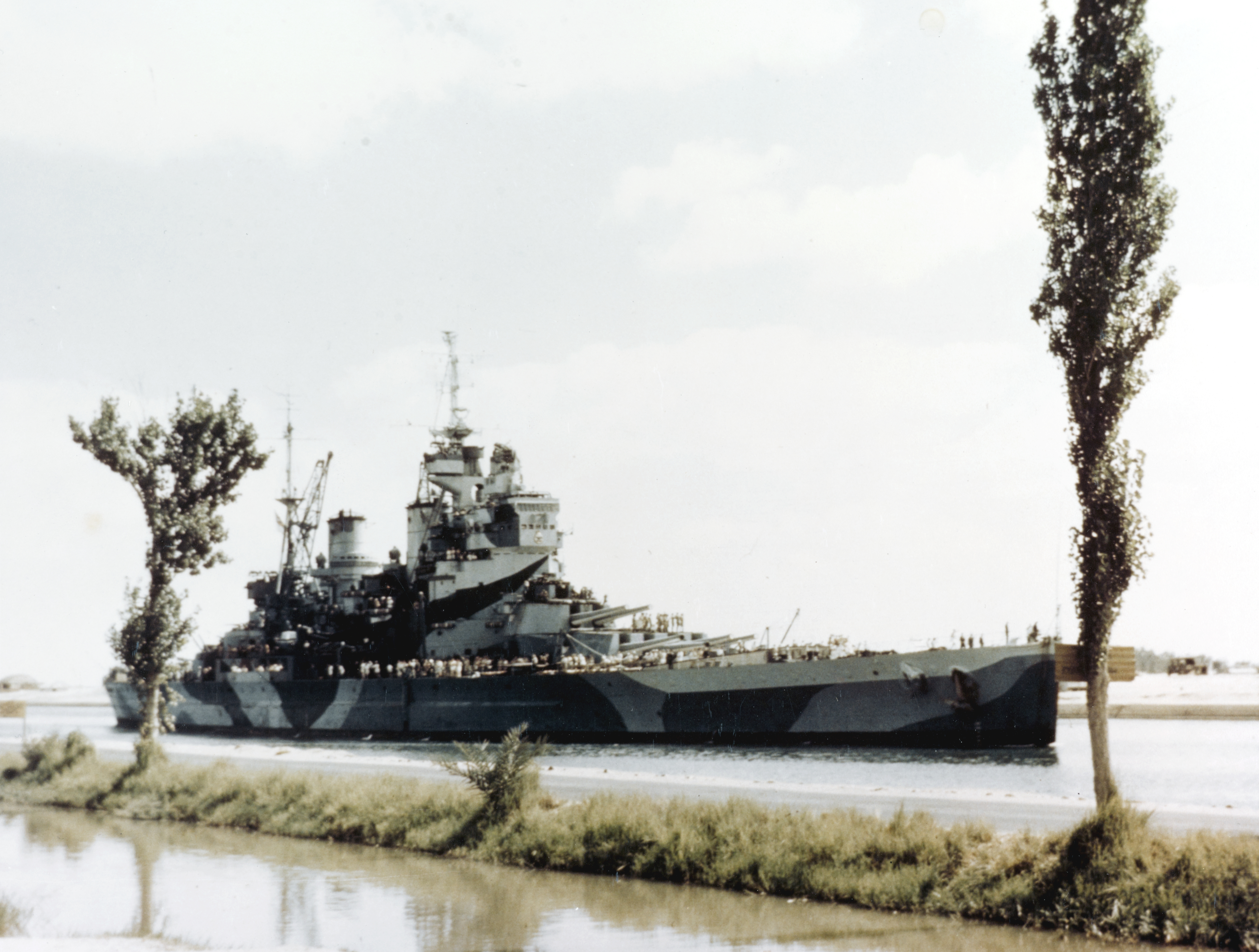 The Royal Navy battleship HMS Howe (32), flagship of the Commander in Chief, Pacific Fleet, Admiral Sir Bruce Fraser, passing through the Suez Canal on its way to the Pacific.